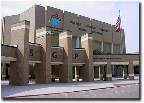 Front of High School